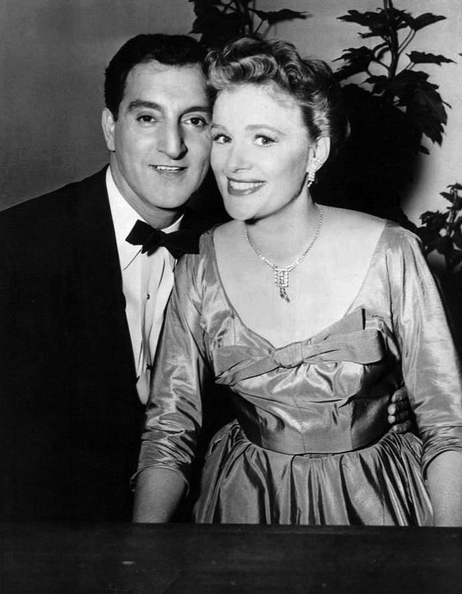 Photo of Danny Thomas and Jean Hagen from the television program Make Room for Daddy. Hagen played Margaret Williams (wife of Thomas' television character) for the first 3 seasons of the show. When she left the program, her character was written out as having died. Thomas' television character later married again, this time to character Kathy O'Hara (Marjorie Lord), who came into the Williams house as a nurse to Rusty, Thomas' television son.